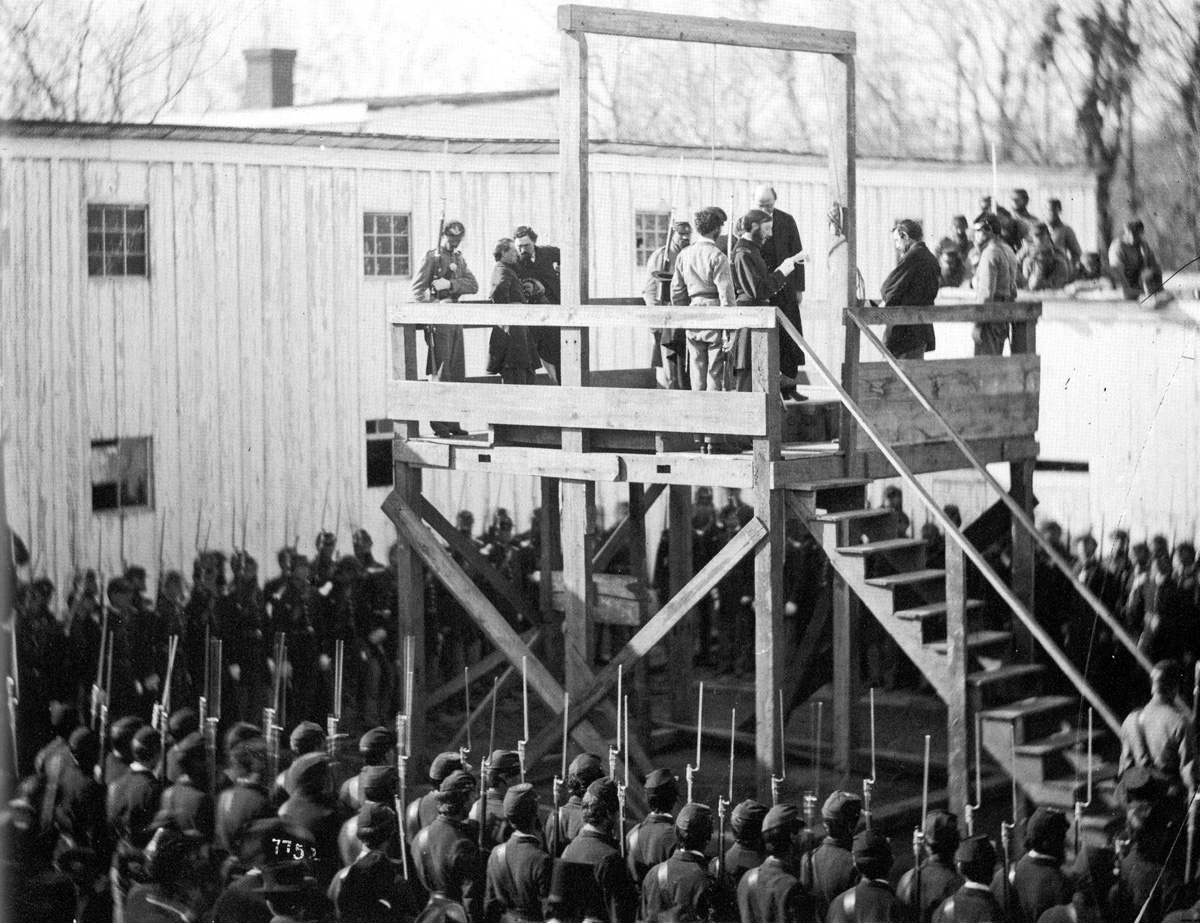 Preparations for the hanging of Henry Wirz